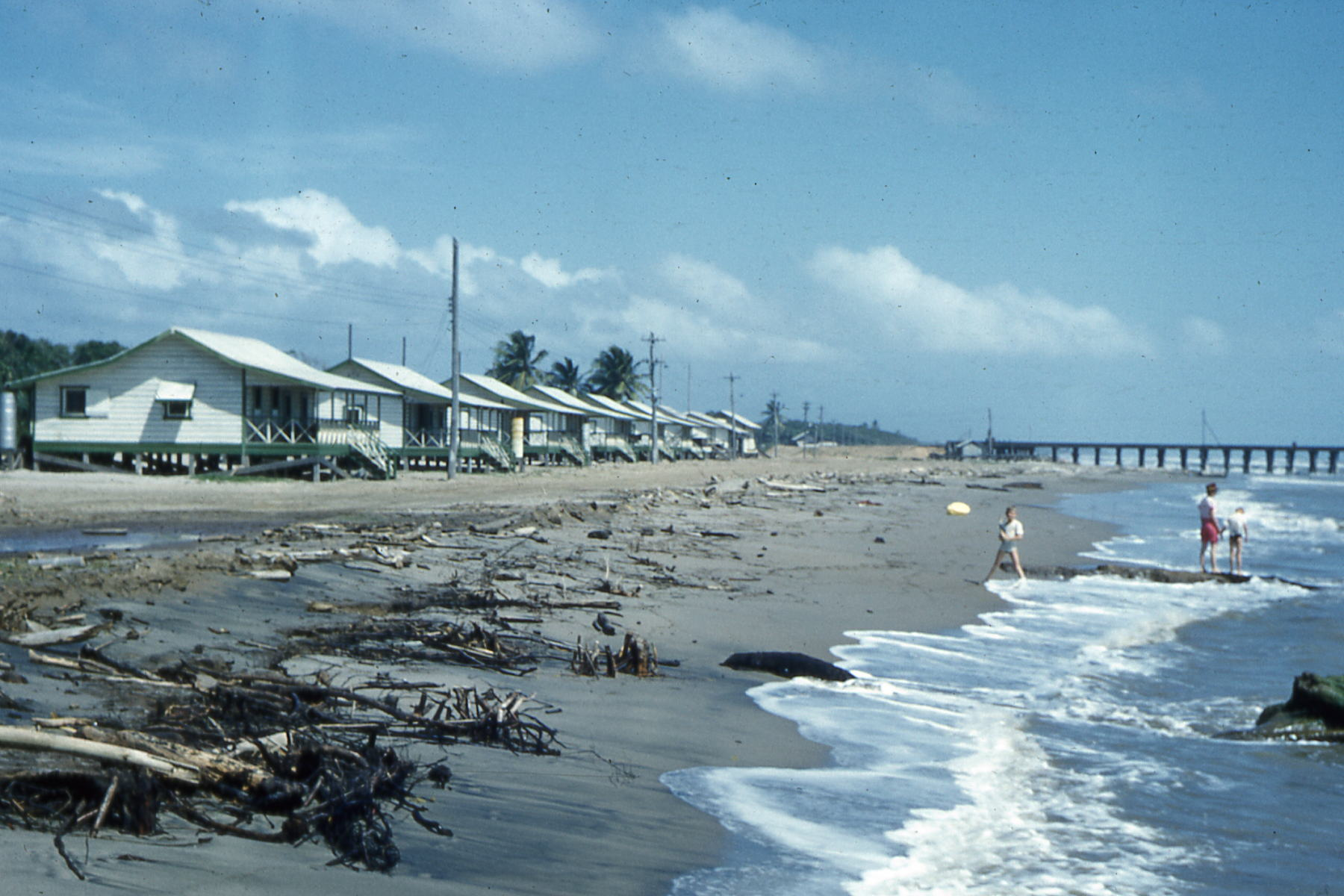 View of Prinzapolka dock and beach cabins belonging to La Luz Gold Mine in Siuna and Bonanza.